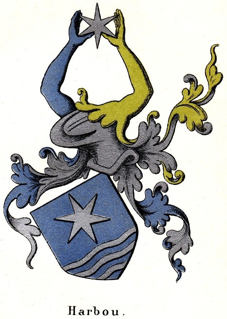 Coat of arms of the Harbou family